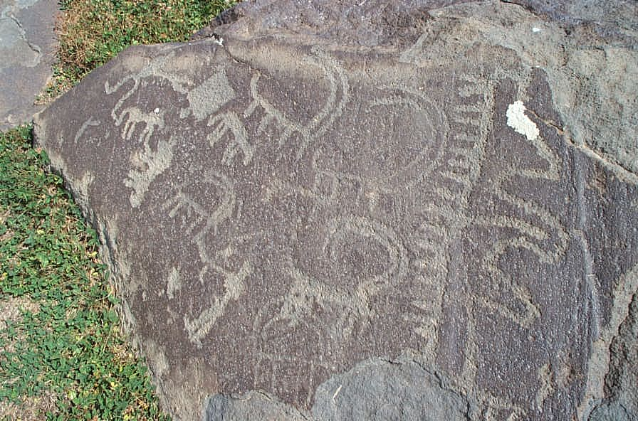 Ughtasar Petroglyphs. One of thousands of boulders with petroglyphs on them on Ughtasar Mountain in Armenia., Armenia.